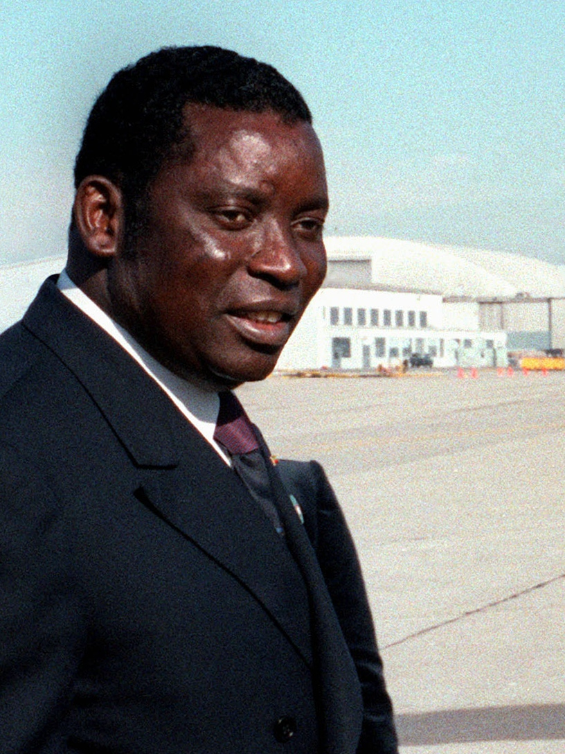 President Gnassingbe Eyadema of Togo departs after a state visit.